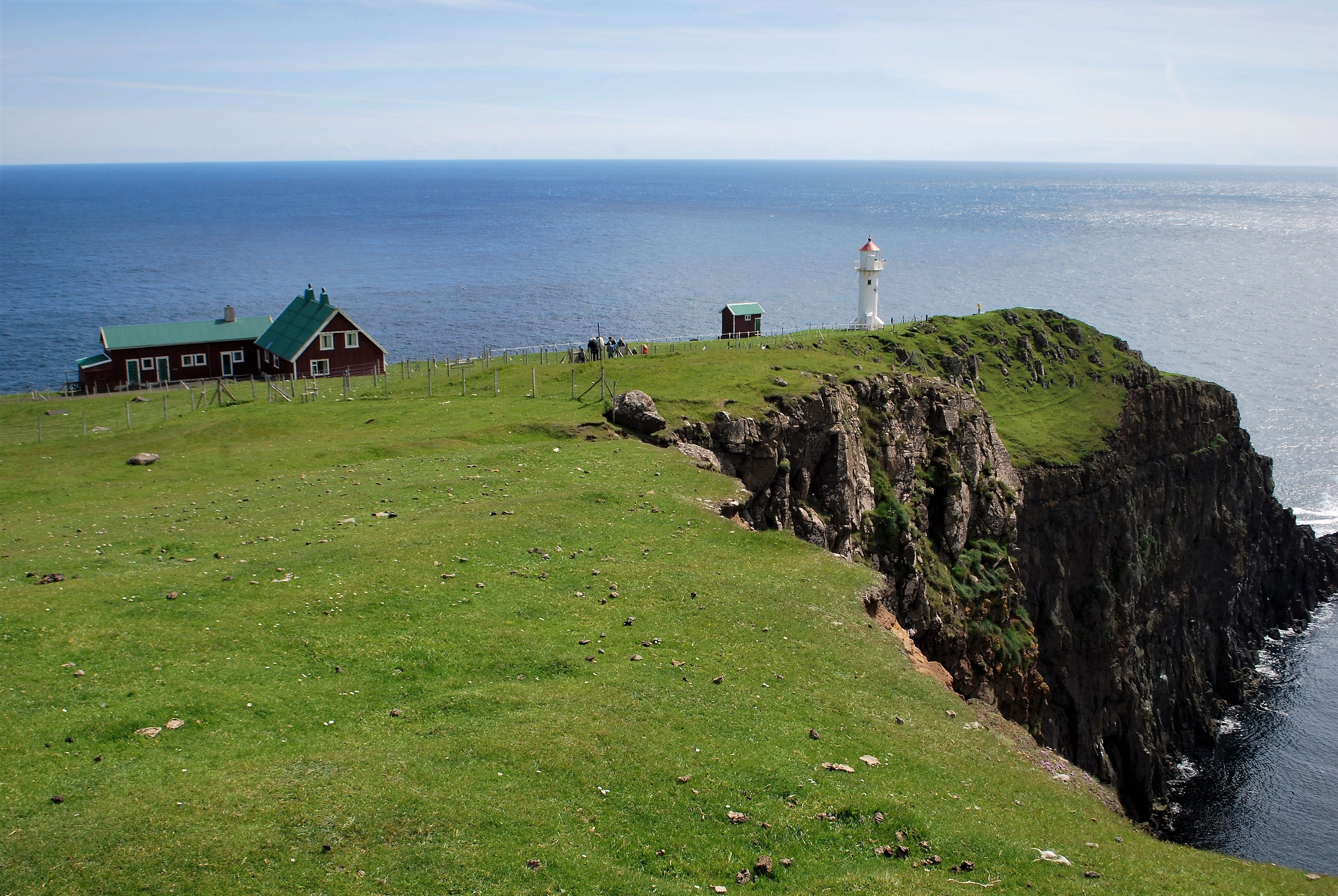 Akraberg, Suðuroy, Faroe islands